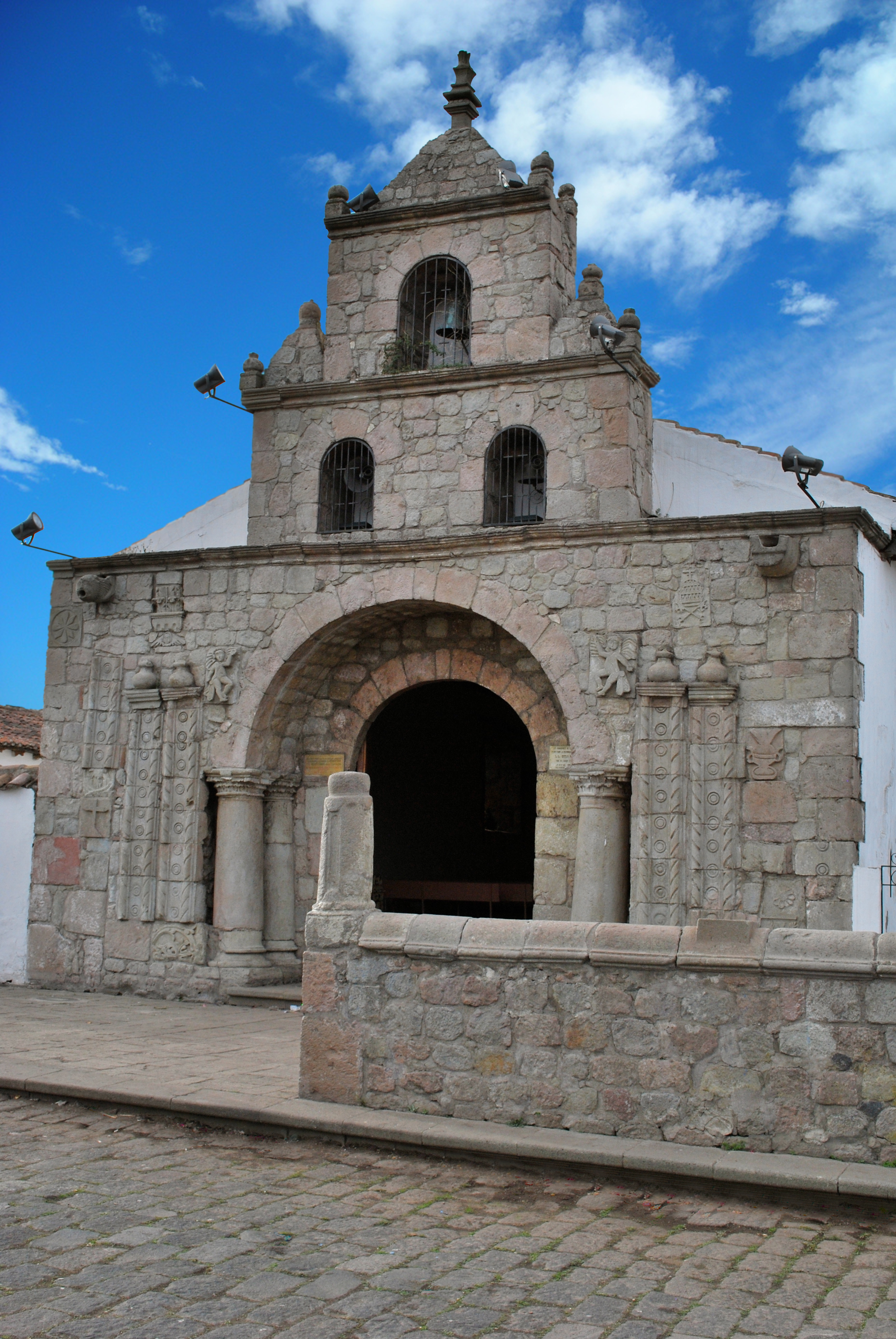 This is the first church built in Ecuador - Cajabamba (Riobamba antigua)